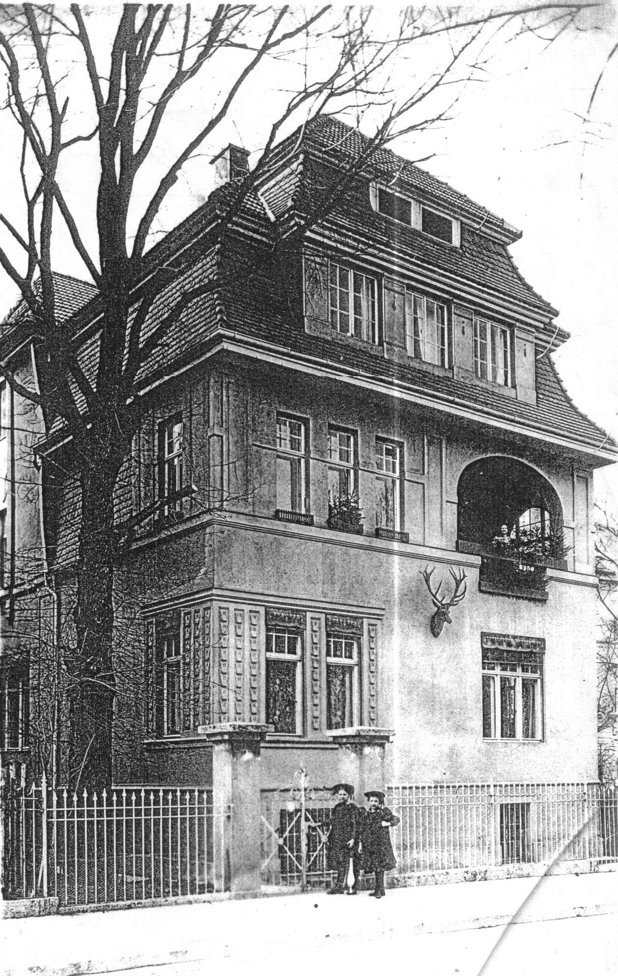 Originally a single family residence; build by architect Rudolf Zapfe for P. Seiler in 1909, Hegelstrasse 24 (formerly Bernhardstrasse), Weimar, Germany